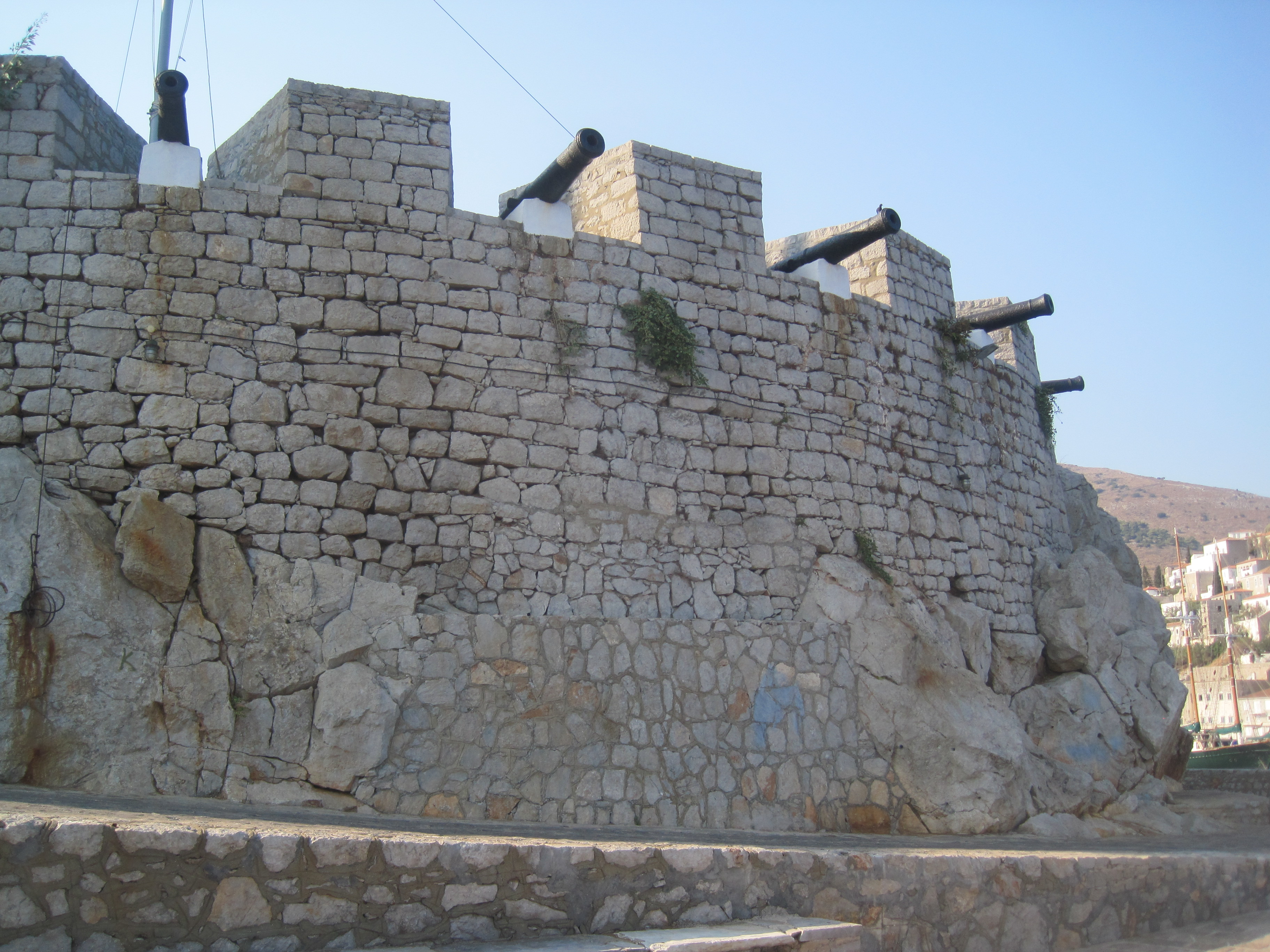 Hydra